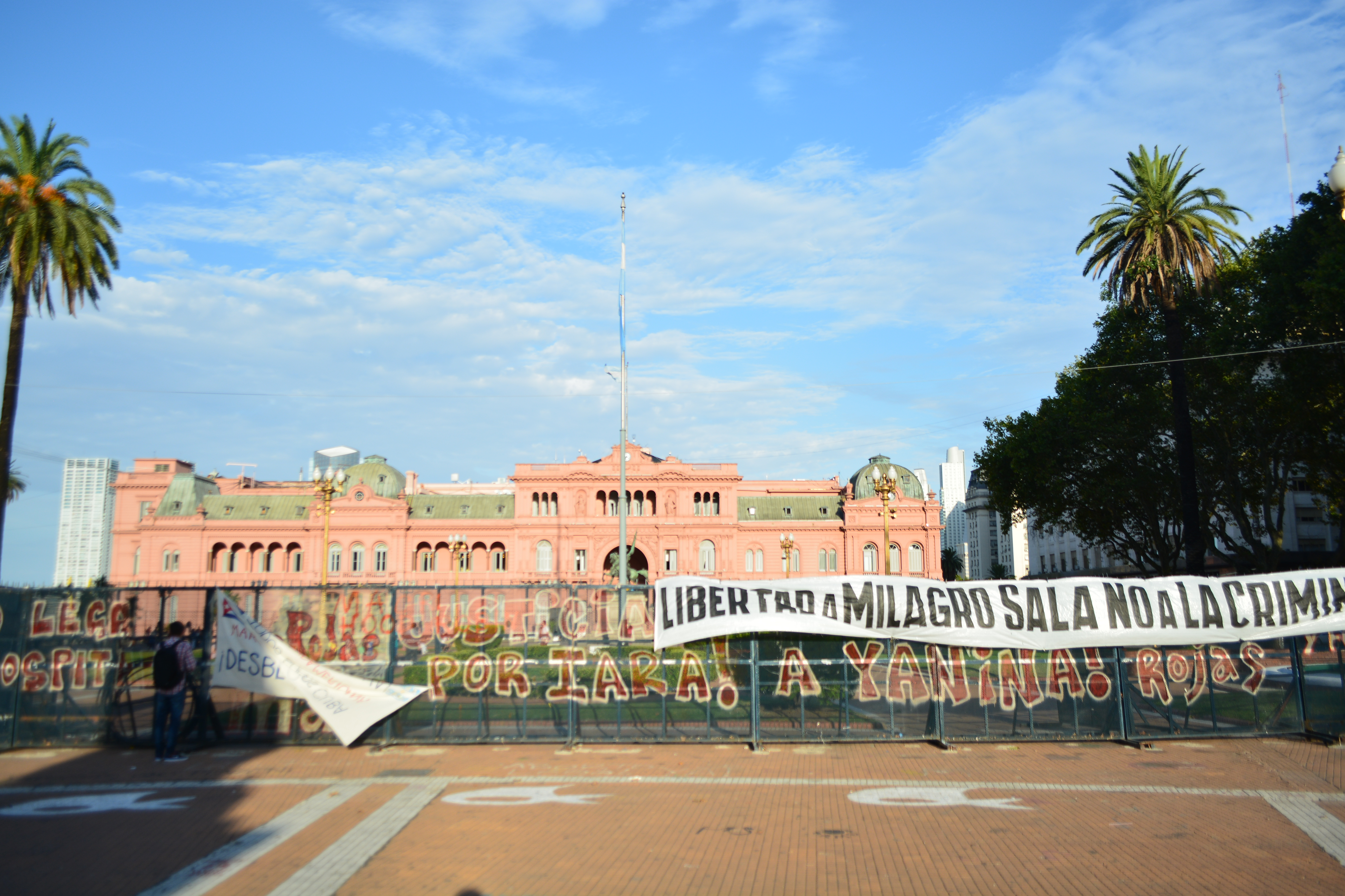 Banners and paintings in heavy walls in favor of Milagro Sala liberation during a protest against Mauricio Macri in the Plaza de Mayo.